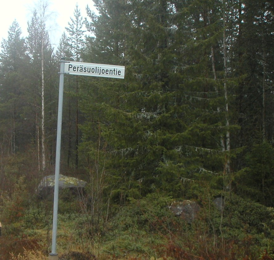 Street sign Peräsuolijoentie (literally "Back intestinal river road" but also "Rectal river road") in Tervola, Finland